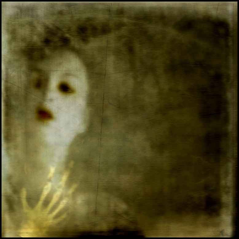 "Mona" has been a true companion during my travels on unknown roads and throu dark allies in the ghettos of my mind. (A.k.a Depression) With sadness in my heart... I feel however it's time to let go! she got caught behind while I was struggleing forward. the deamons are beaten (for now) but when They turn up again, the fight continues where we left of and I really hope I still can rely on her unforgiving help. for now, Dearest friend R.I.P.